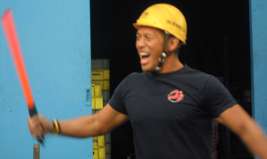 Japanese professional wrestler,Michael Nakazawa. May 1 2011 DDT Factory pro wrestling.